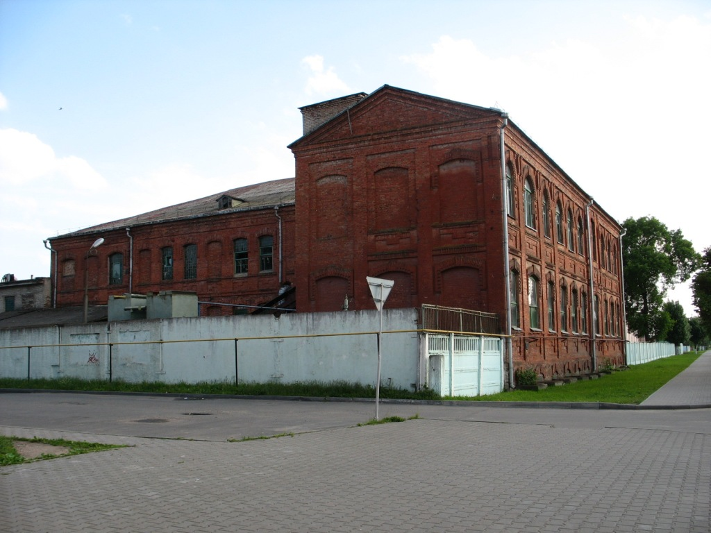 Bulding of commercial school(Slutsk, Belarus)